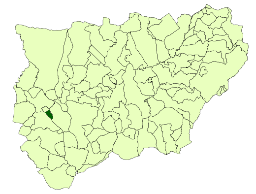 Situation of the municipality of Villardompardo (Jaén, Andalusia, Spain).